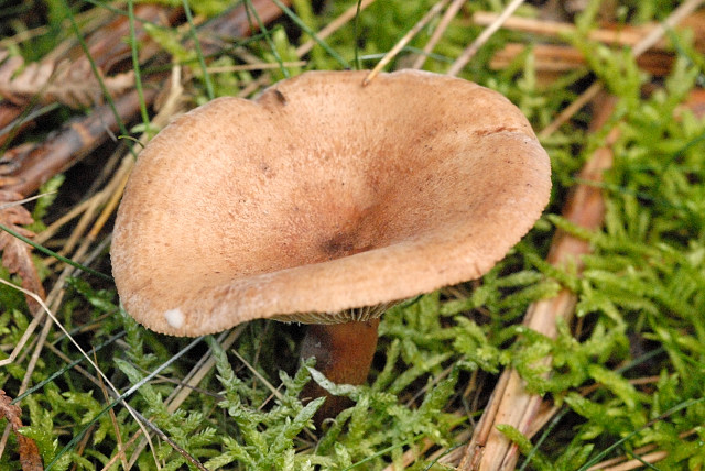 Lactarius helvus from Commanster, Belgium. The determination of the species shown in this picture has been verified.